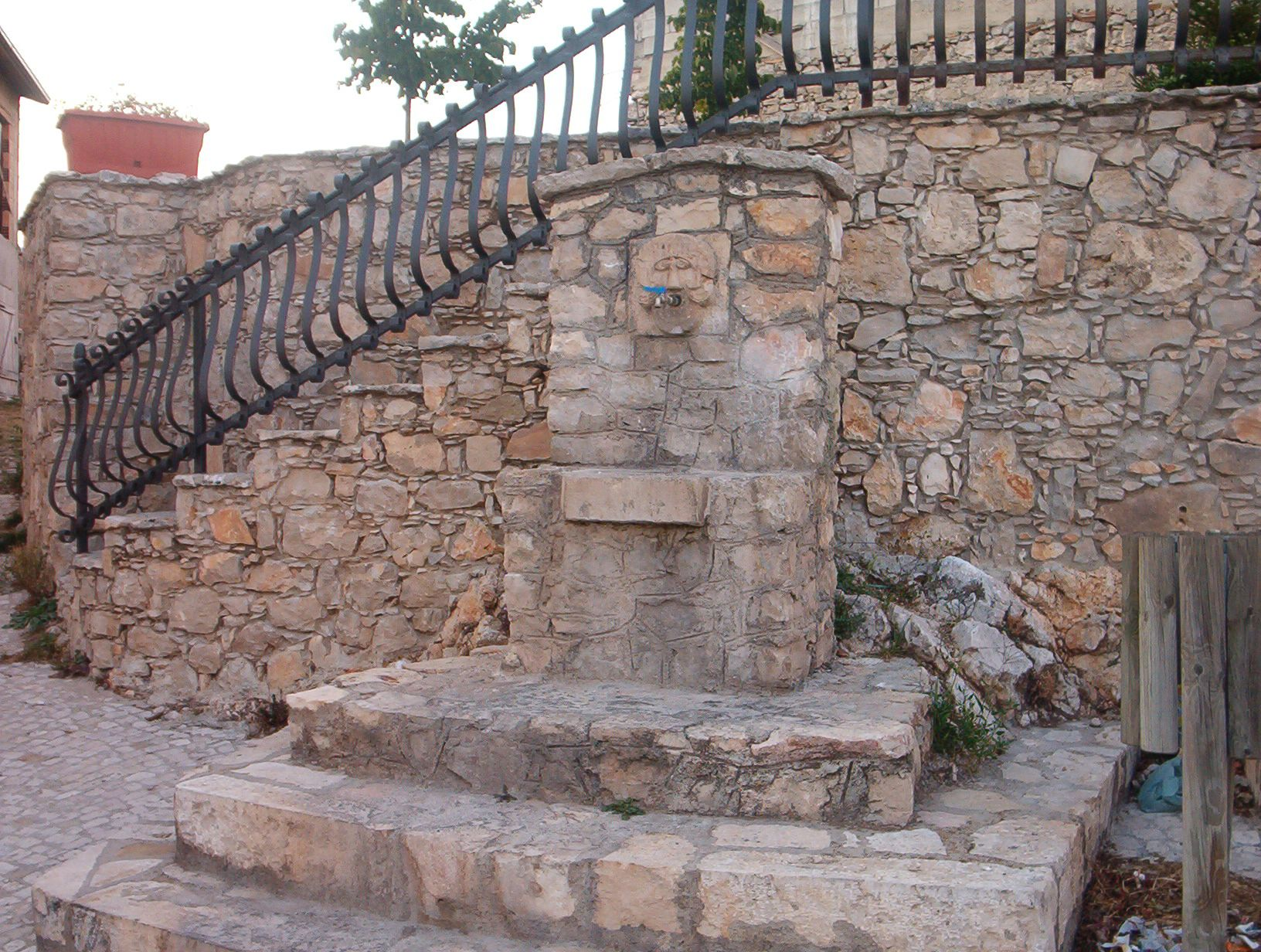 View of Scontrone, a nice little town in Italy (L'Aquila).